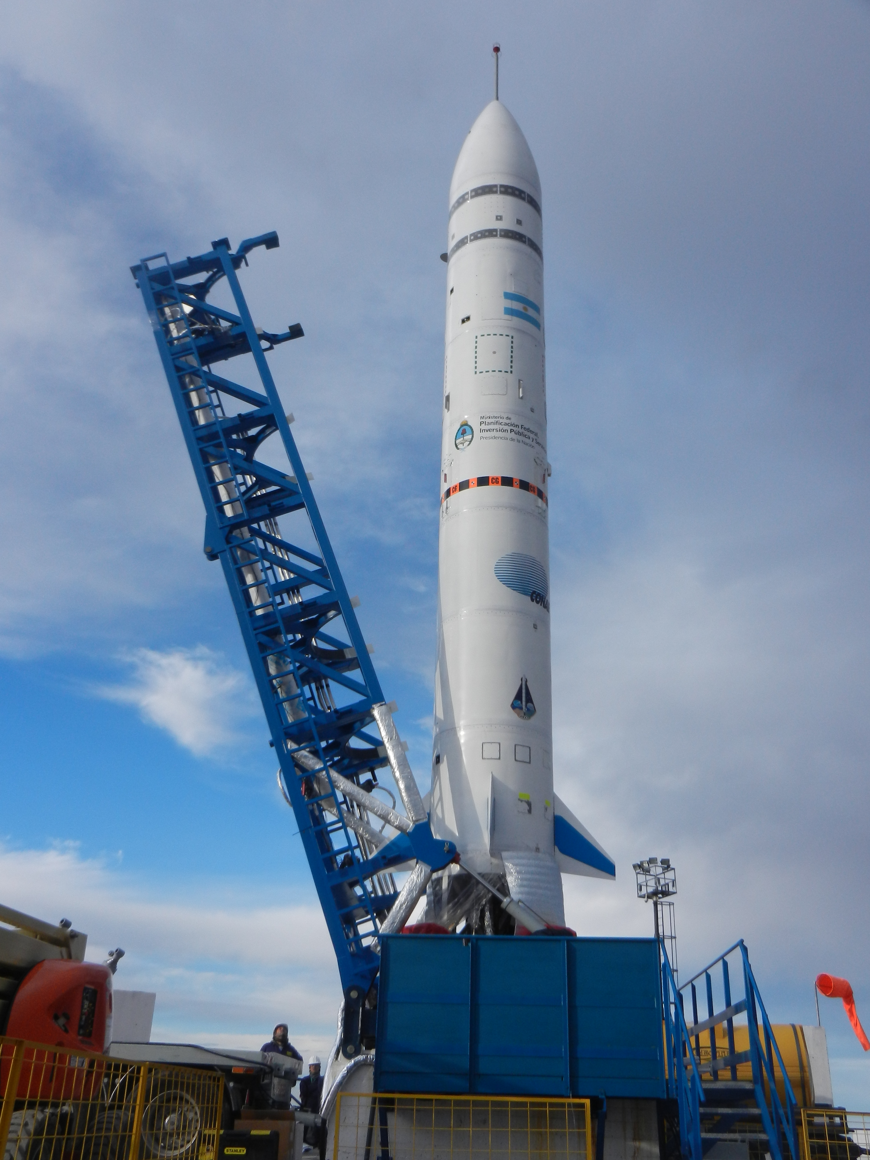 The prototype of the Tronador II rocket, VEX-1B in its launch complex.